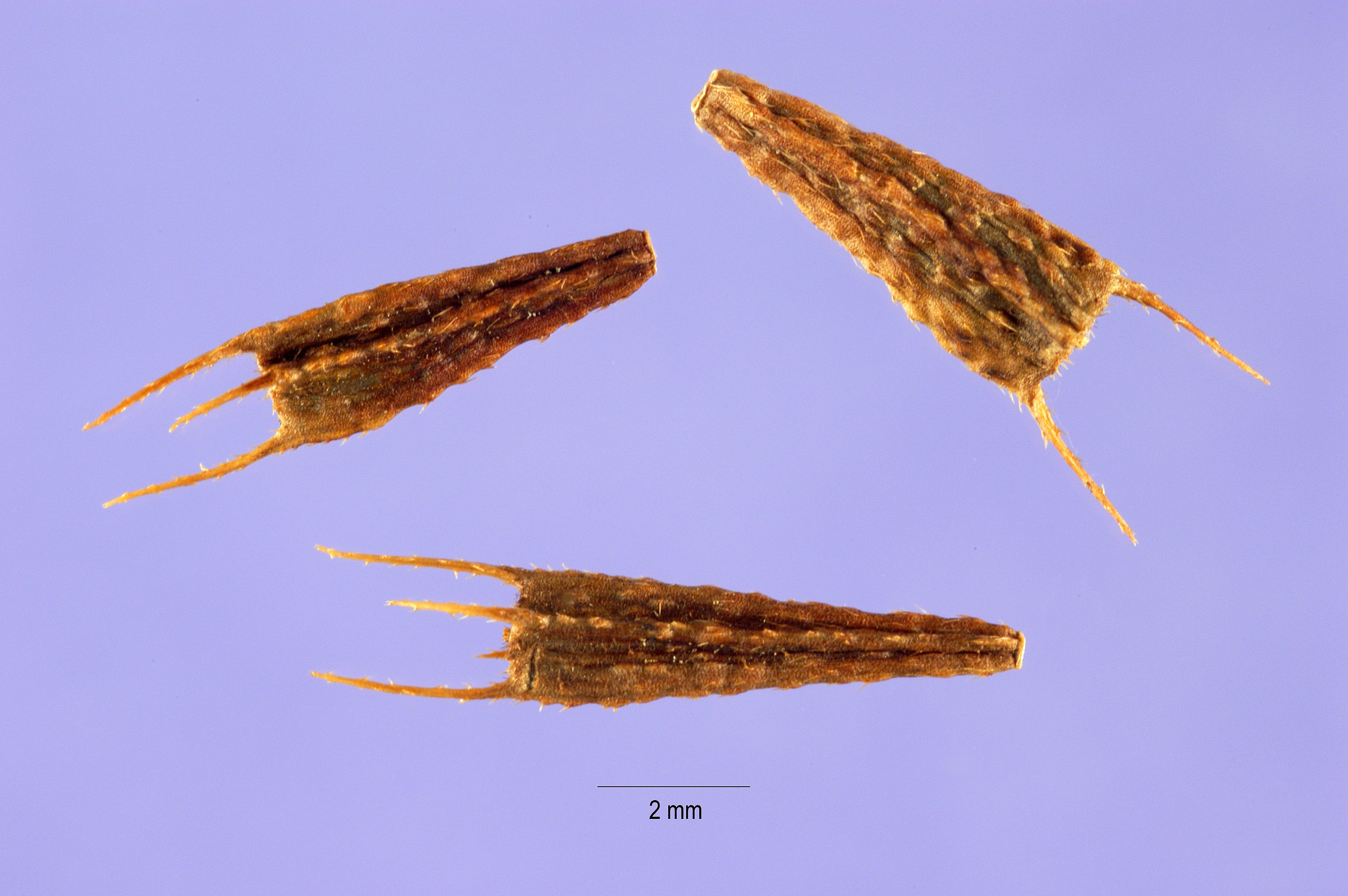 seeds of Bidens connata from Steve Hurst, Provided by ARS Systematic Botany and Mycology Laboratory. United States, MD